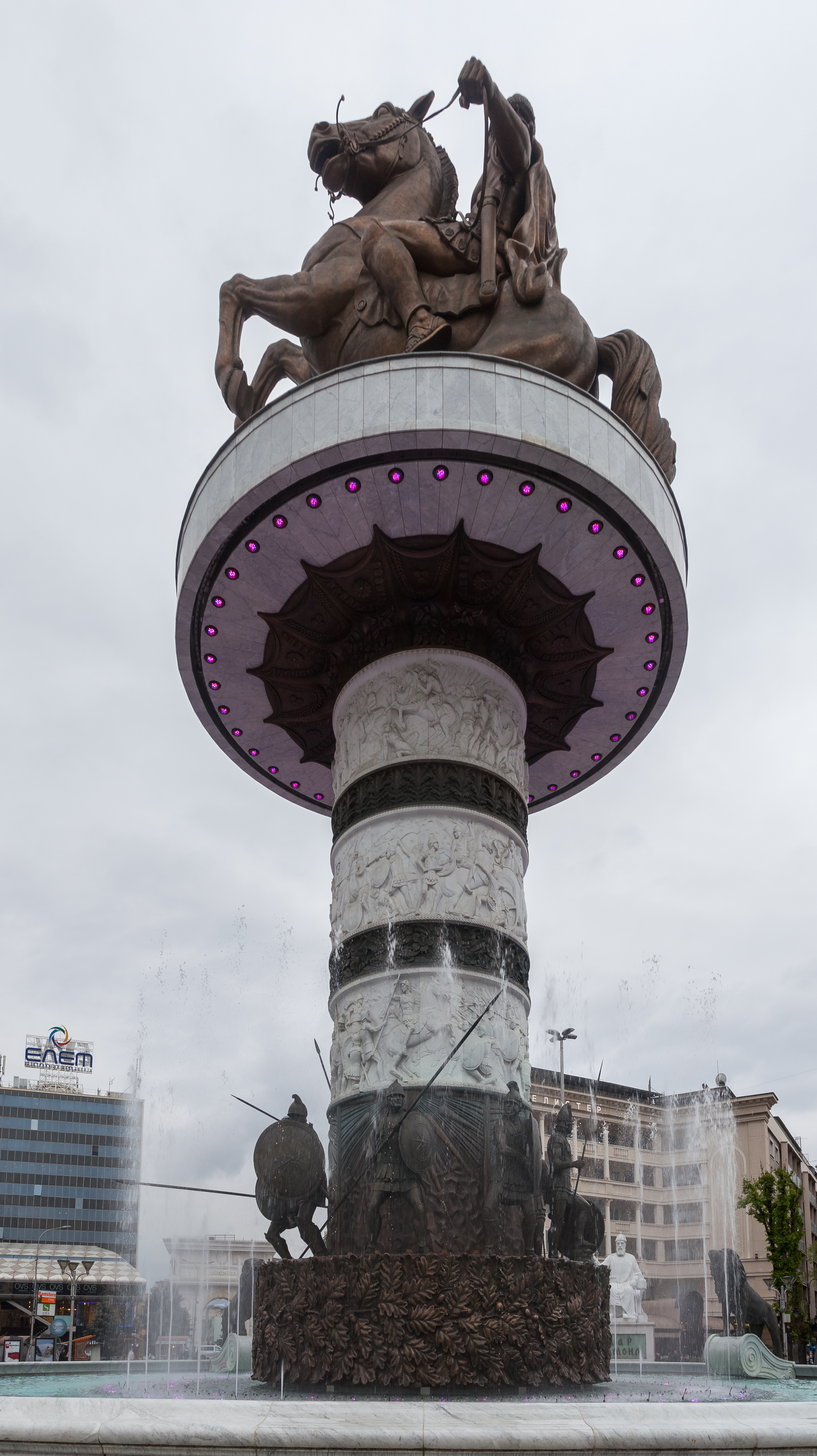 Warrior on Horseback, Skopje, Macedonia